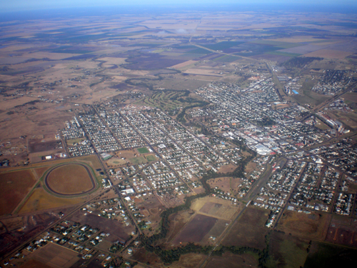 Aerial photograph of Dalby, Queensland.